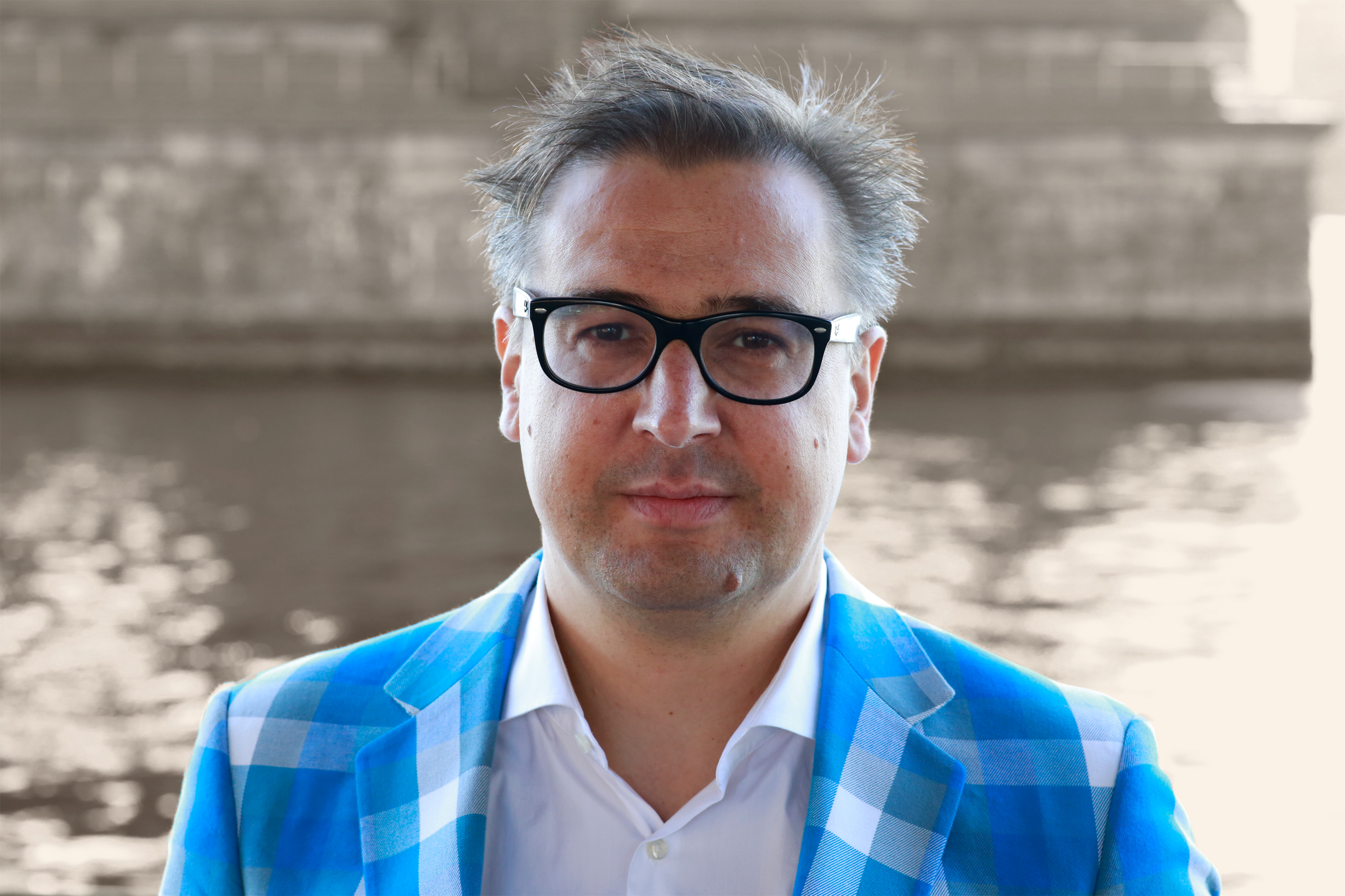 Volker Goetze (Headshot) (cc) Sam Samore